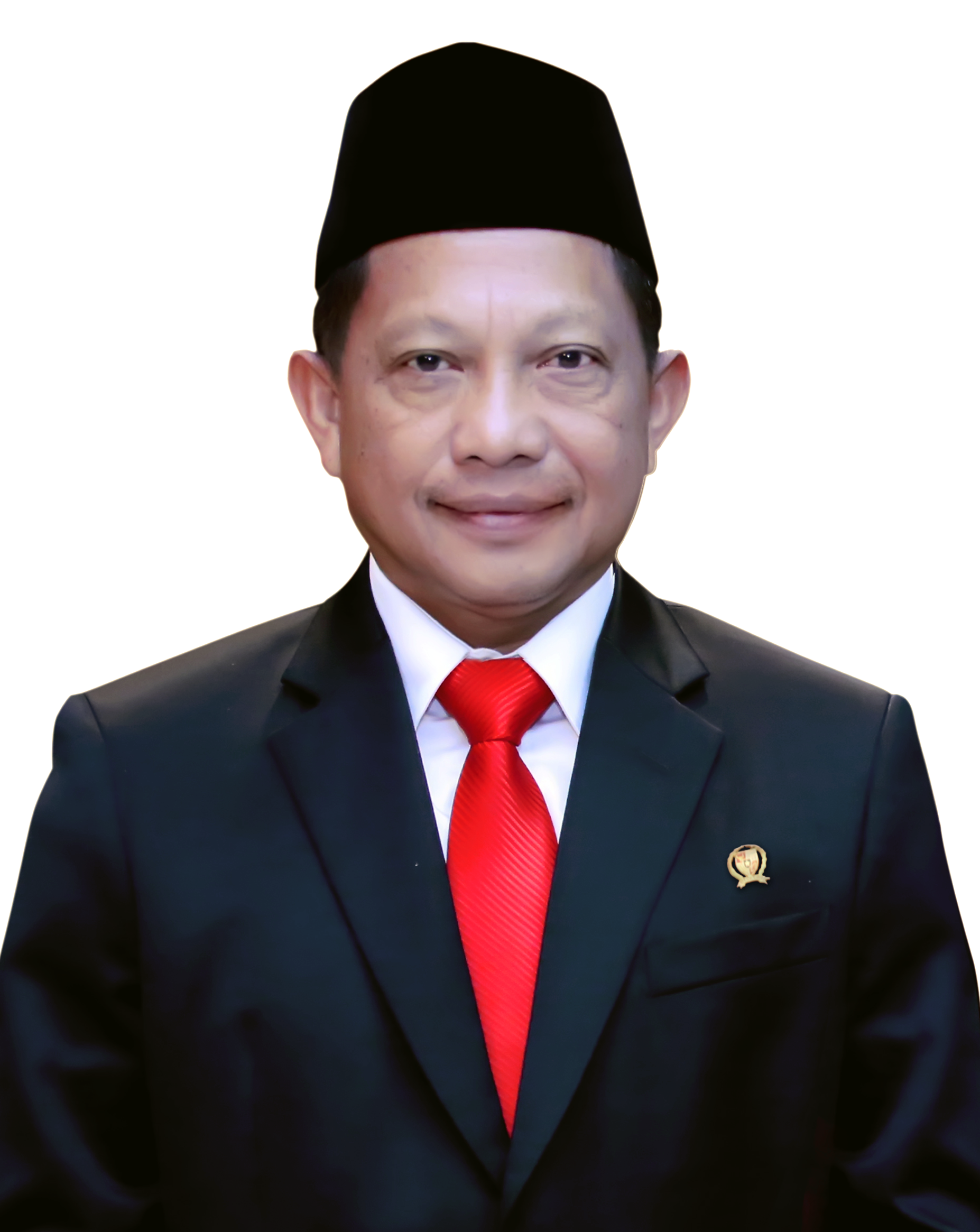 Official portrait of Minister of Interior of the Republic of Indonesia, Tito Karnavian in Onward Indonesia Cabinet. He was appointed at 23 October 2019 by Indonesia President Joko Widodo